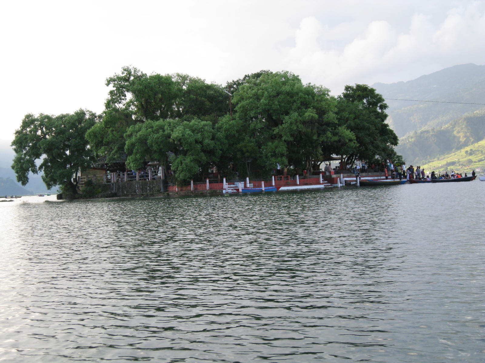 Phewa Lake, Phewa Tal or Fewa Lake is a lake of Nepal located in the Pokhara Valley near Pokhara and Sarangkot.